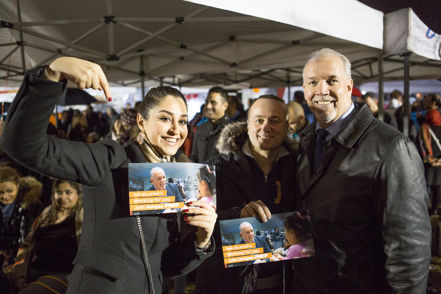 March 14, 2017, Coquitlam. BC NDP at the Iranian festival to celebrate Nowruz